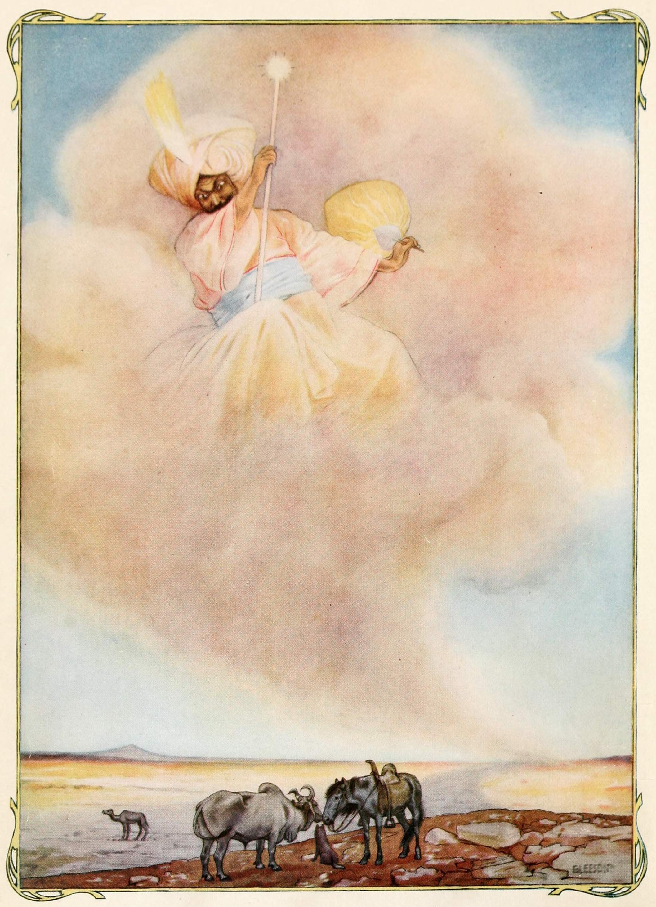 Illustration from a collection of short stories Just so stories (c1912) Garden City, N.Y. : Doubleday & Co., Inc.